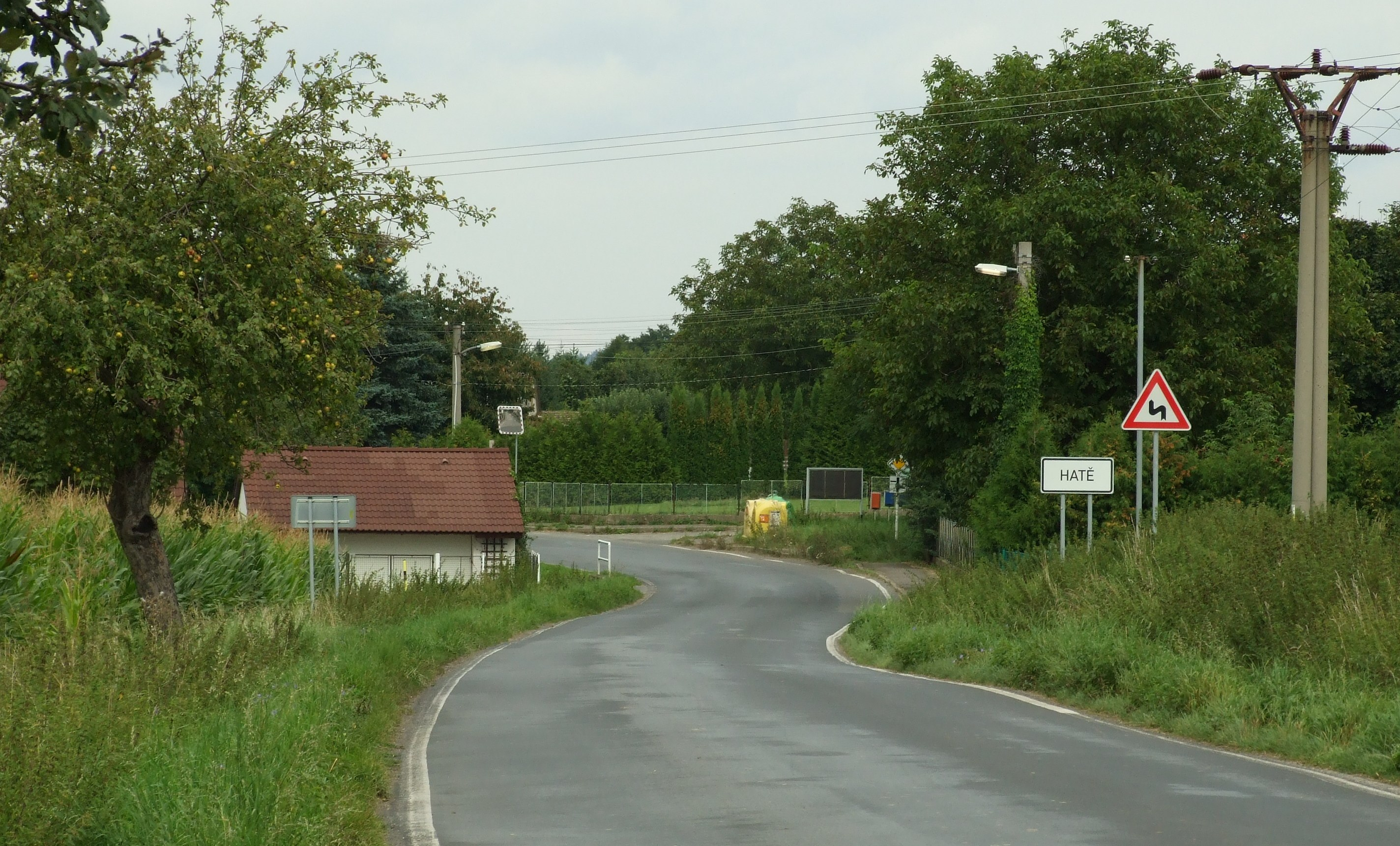 Arrival in the village of Hatě (part of the town of Skuhrov), Central Bohemian Region, CZ